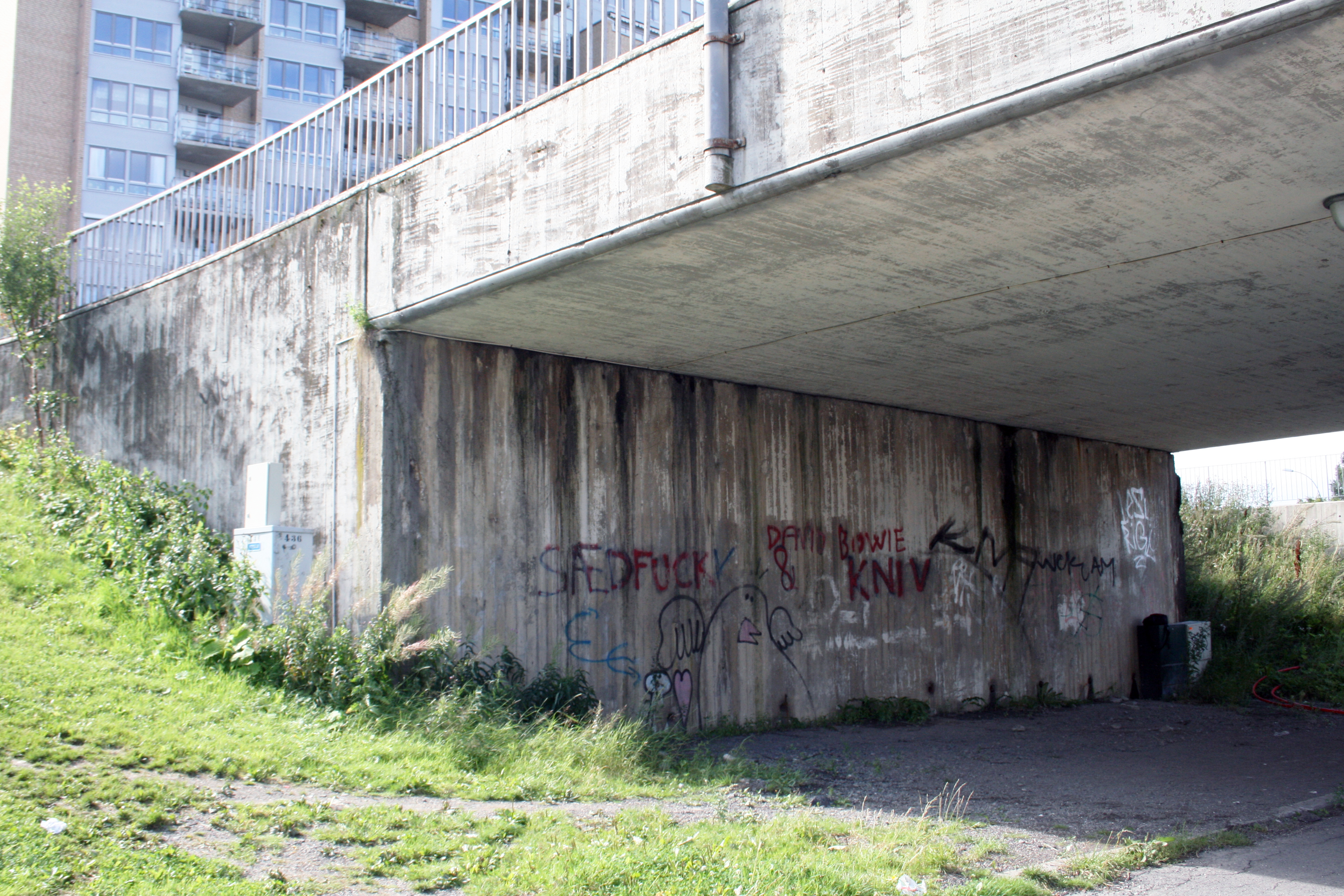 Sædfuck, a classic graffiti at Bøler in Oslo, Norway; first painted 1986